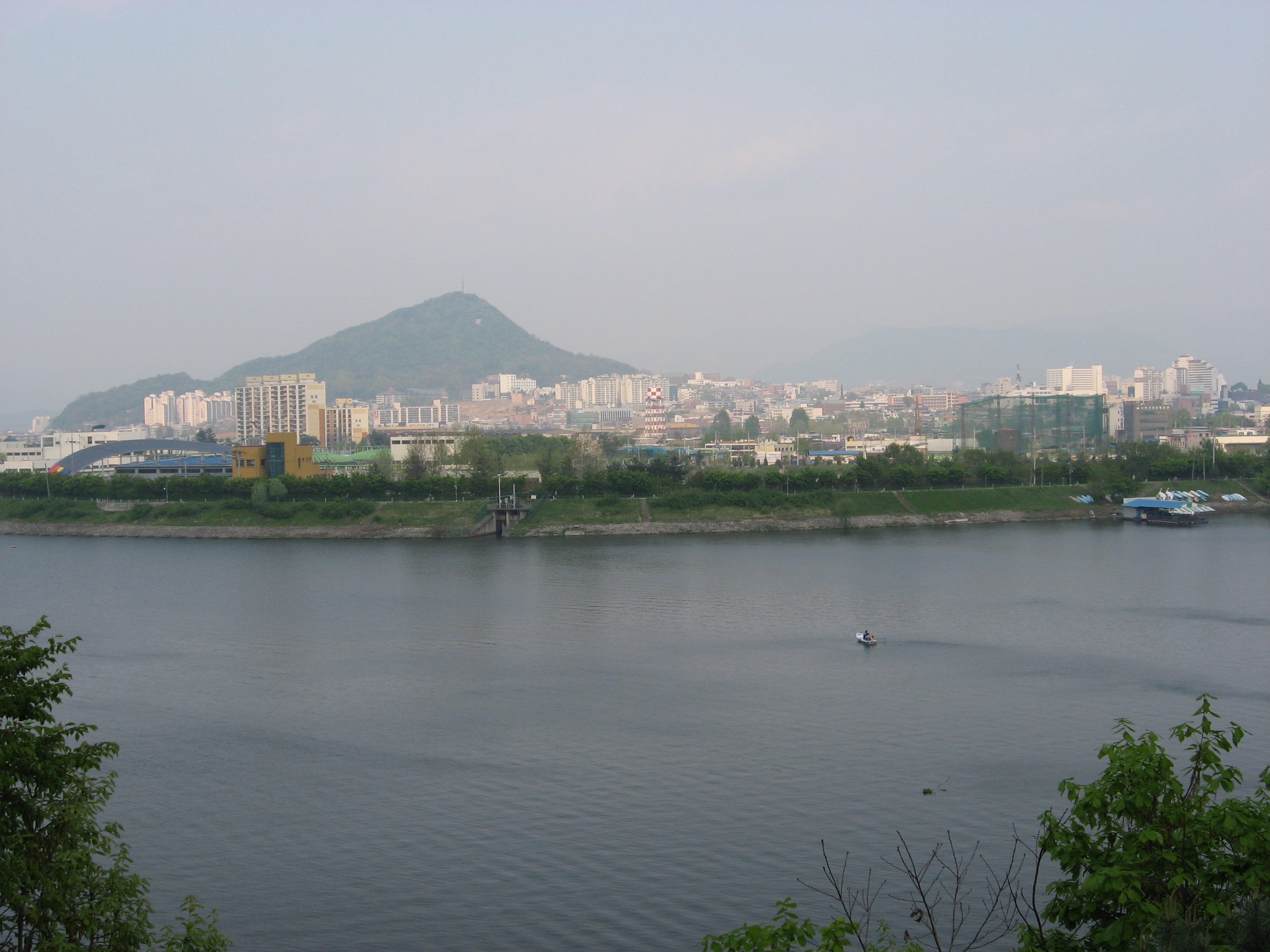 Chuncheon City, South Korea